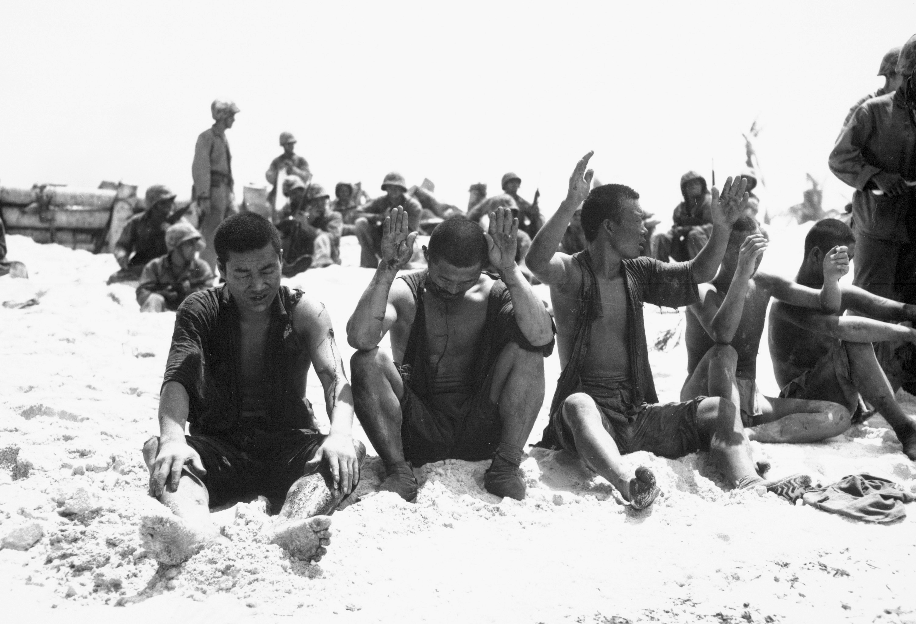 Japanese prisoners of war at Tarawa. VIRIN: HD-SN-99-02962